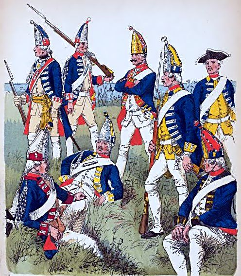 Prussian grenadiers and musketeers in 1762. Standing from left to right: 1. Gren. officer/Bn. Weiss, 2. Grenadier/Bn. Weiss 3. Grenadier/Zöge v. Manteuffel 4. Grenadier/Rgt. Prinz Wilhelm 5. Musketeer/Rgt. Prinz Wilhelm. Sitting from left to right: 1. Grenadier/Rgt. Essen 2. Grenadier/Rgt. Kettenburg 3. (bottom right corner) Grenadier/Rgt. Prinz August.